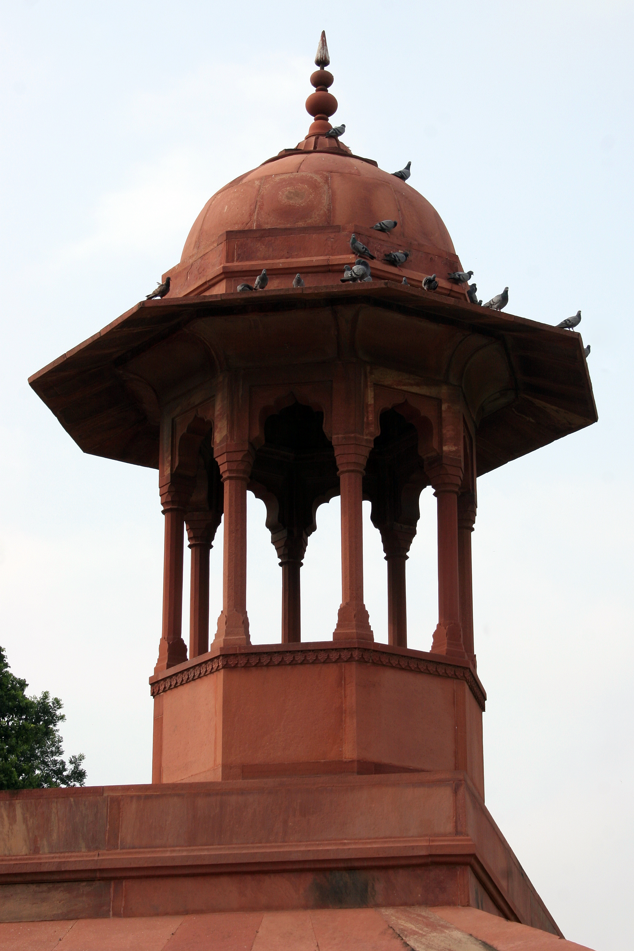 Turret at the Taj Mahal in Agra, India.